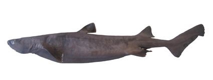 Kitefin shark (Dalatias licha)